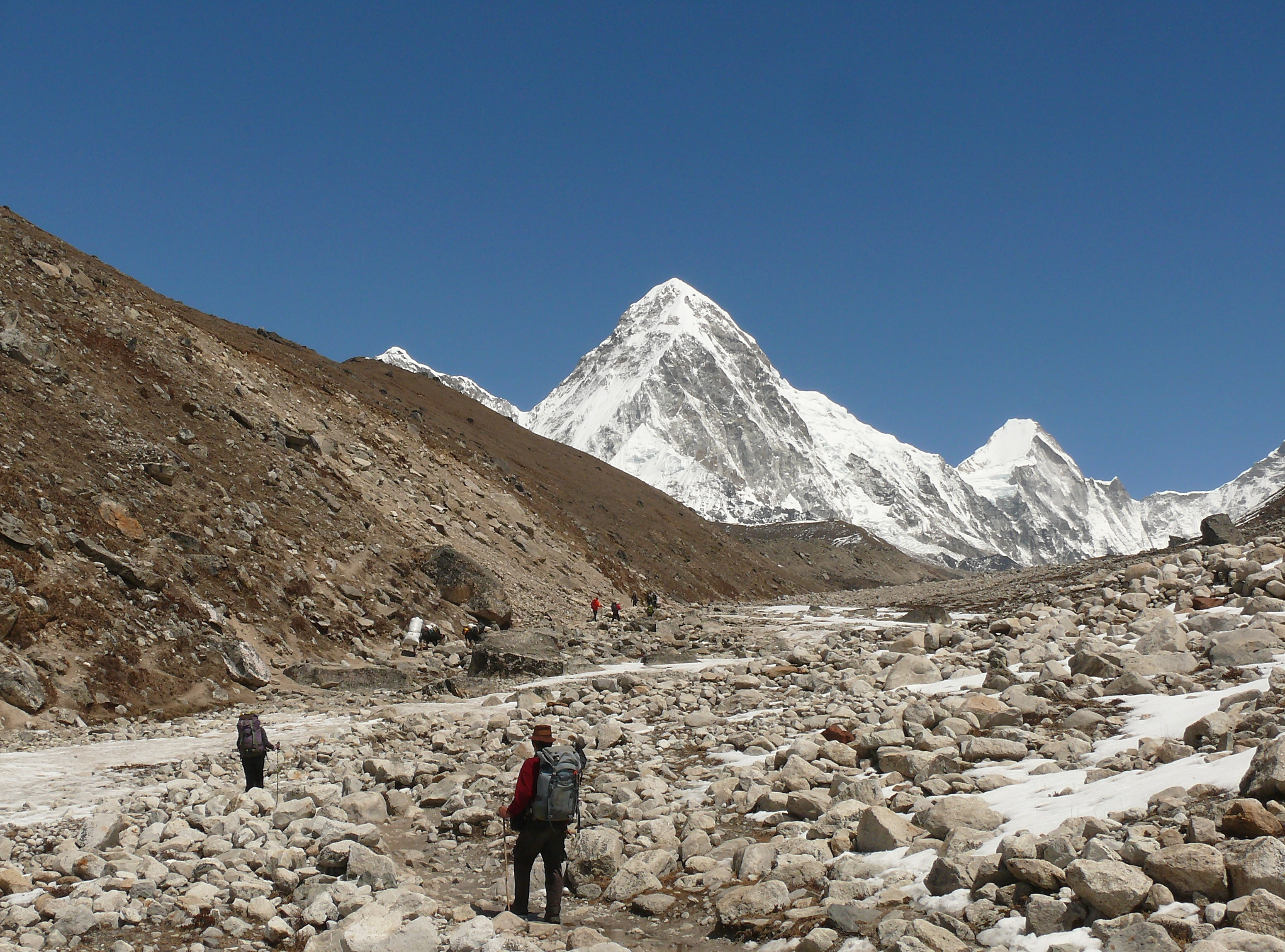 Crossing Khumbu Glacier